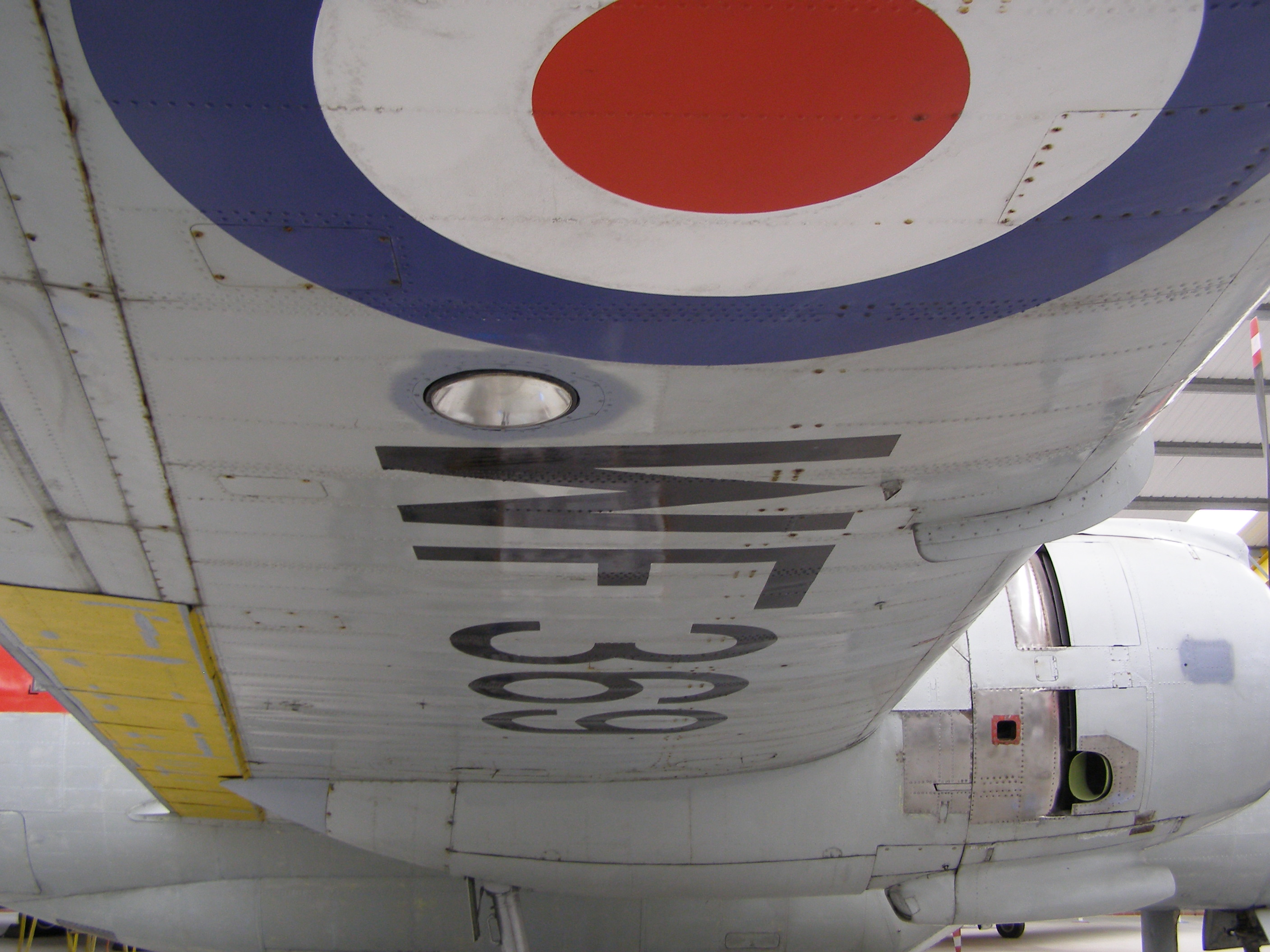 Vickers Varsity T1 at the Newark Air Museum, England (shown underwing serial WF369)